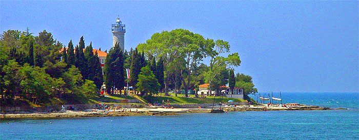 BoÅ¡tjan Burger /